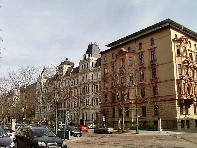 No. 31-35 at Hegelstrasse in Magdeburg